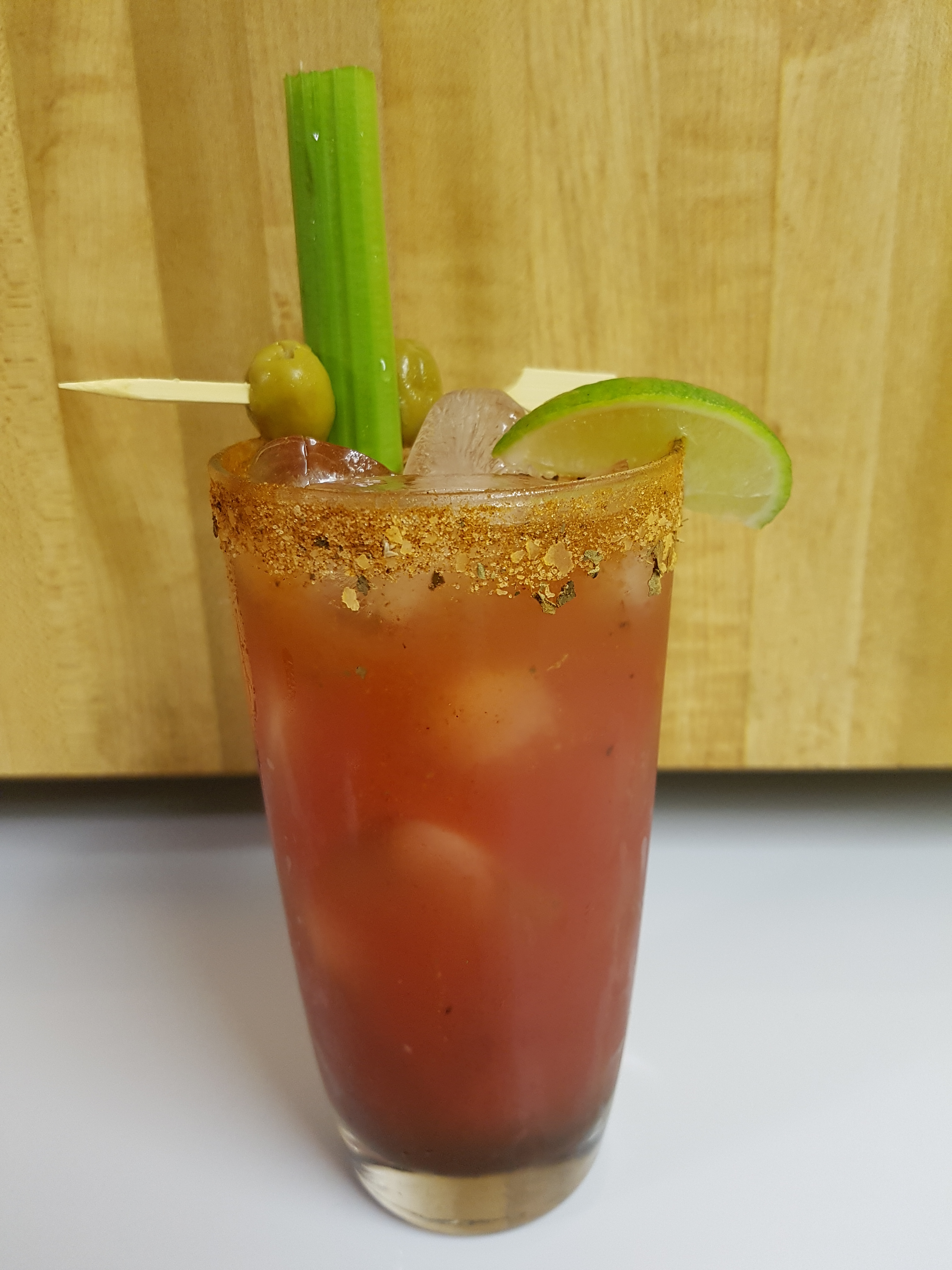 Bloody Caesar made with 2 shots of vodka, a pinch of horseradish, a little spicy with 5 dashes of tobasco, made muddy with about 10 dashes of Worcestershire, all over ice, and filled to the top of a celery salt and spice rimmed glass with Clamato juice. Finished with three turns from a pepper mill on top of the ungarnished product. Garnished with a stick of crisp celery flanked by two cocktail olives, and a lime wedge on the rim.